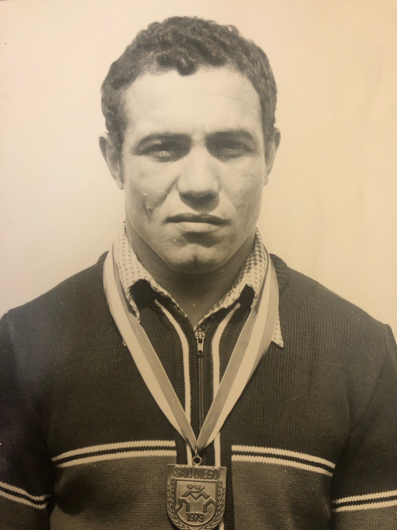 Pavel Pavlov, wrestling